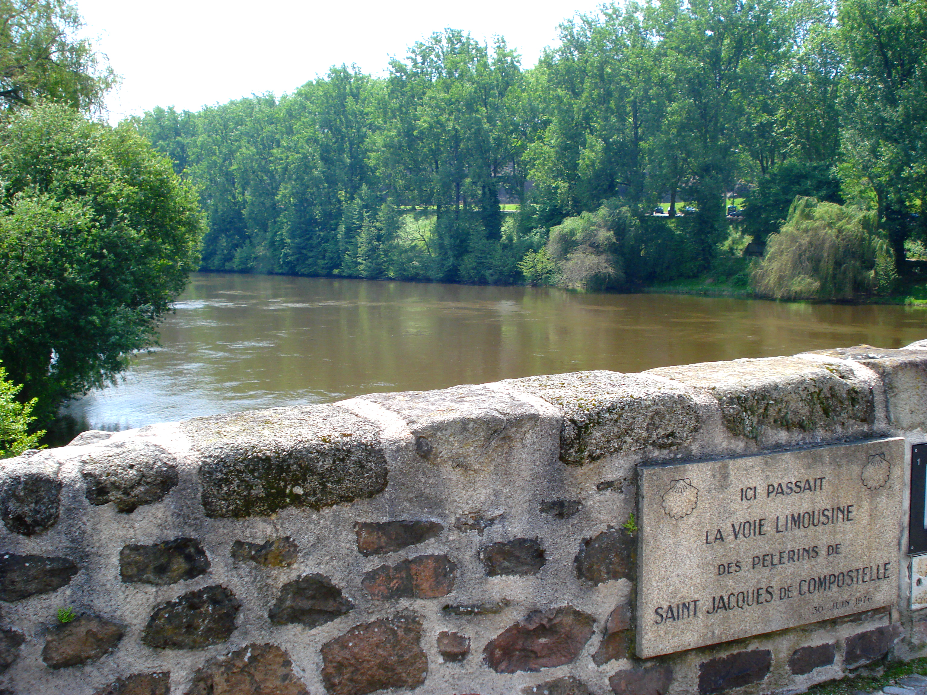 Limoges (Haute-Vienne, Fr), Pont St.Etienne on the Haute Vienne river, old bridge on the way of Saint James